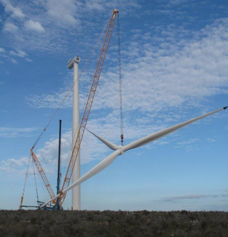 Jeffreys Bay Wind farm Other information NA